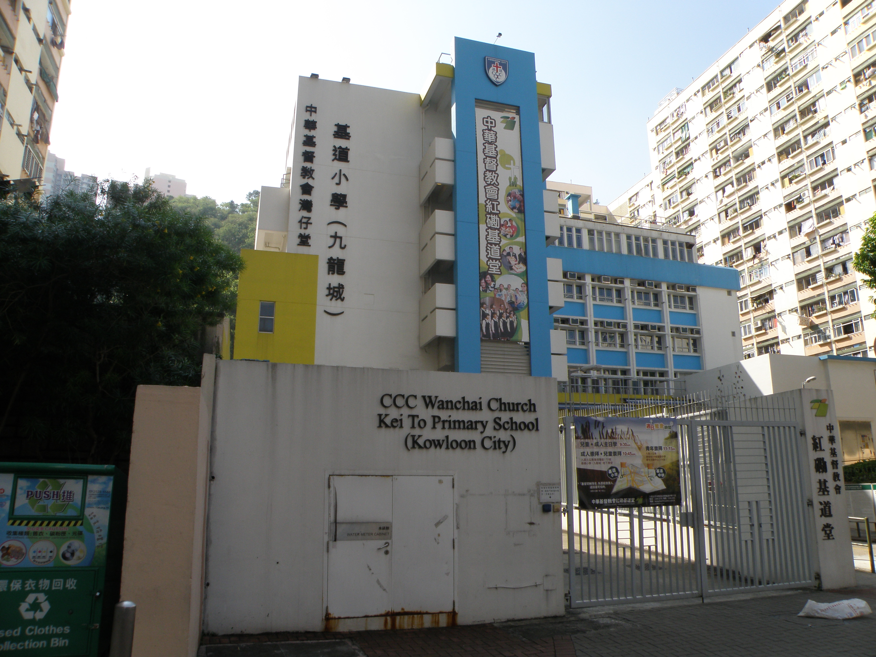 CCC Wanchai Church Kei To Primary School in Ma Tau Wai, Hong Kong.